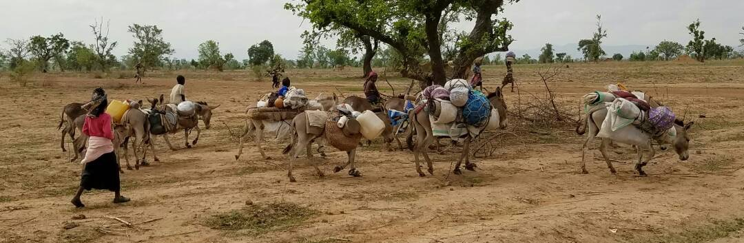 This is an image of "African people at work" from Nigeria